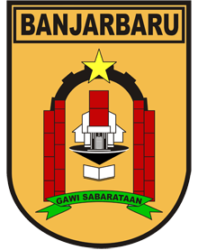 Lambang (Coat of Arms) of Kota (City) Banjarbaru, Provinsi Kalimantan Selatan (South Kalimantan Province, on island Borneo/Kalimantan in id), Indonesia